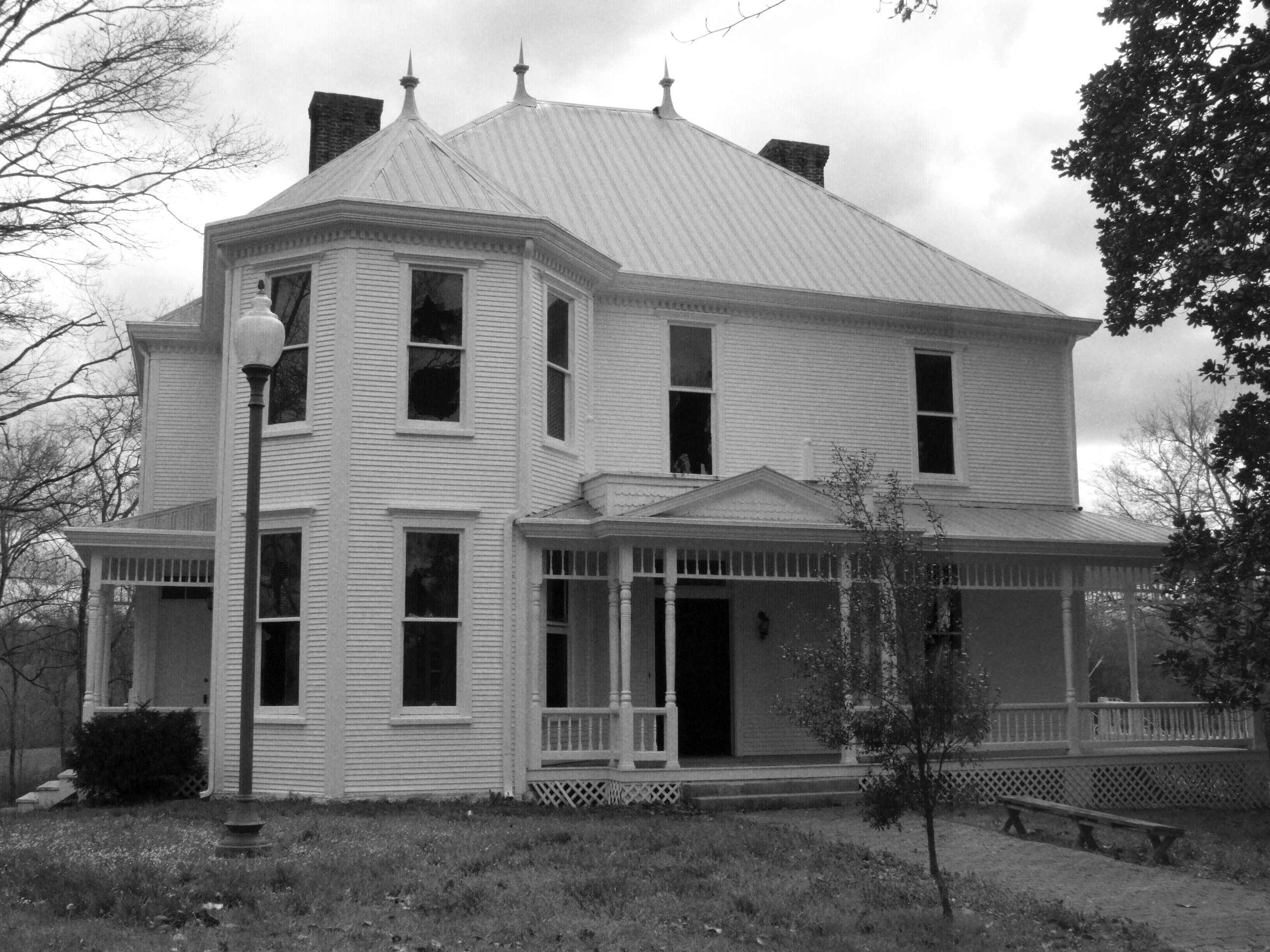 Built by Jacob Morton (Jake) Shofner approx. 1890, maternal grandfather of Prentice Cooper, three-term Governor of Tennessee (1939-1945)